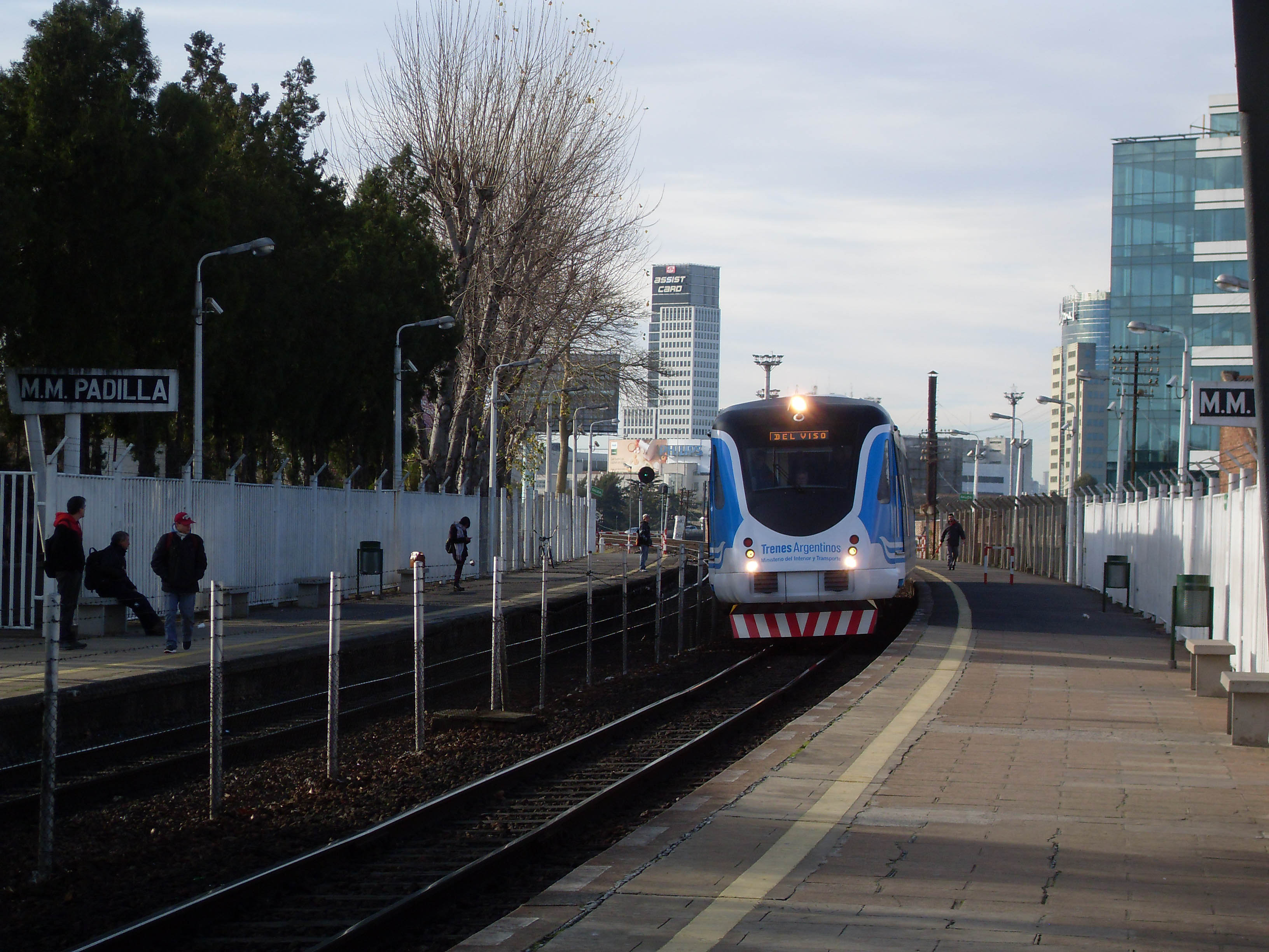 An diesel multiple unit by Emepa in Padilla station of Villa Martelli, running on the west-side platform.